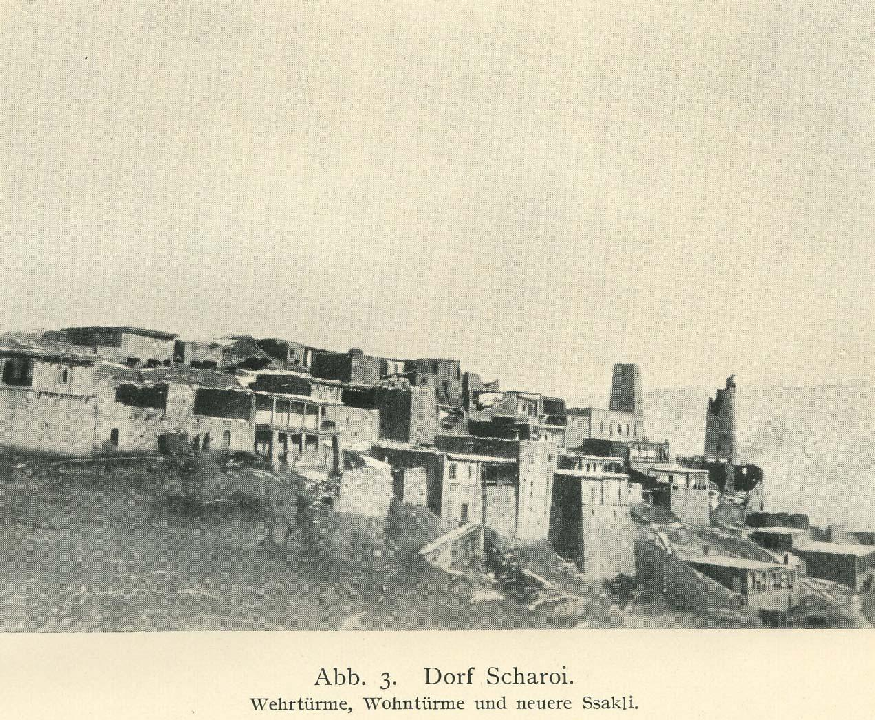 Sharoi, Chechnya, Russia, XIX century.